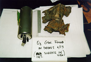 NTSB photo of recovered oxygen generator